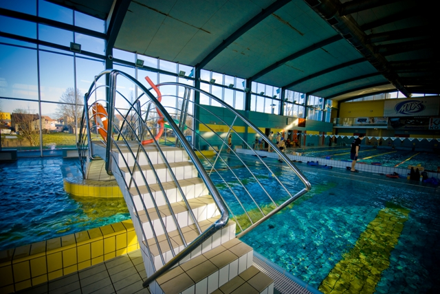 Swimming pool "Camena" in Skawina